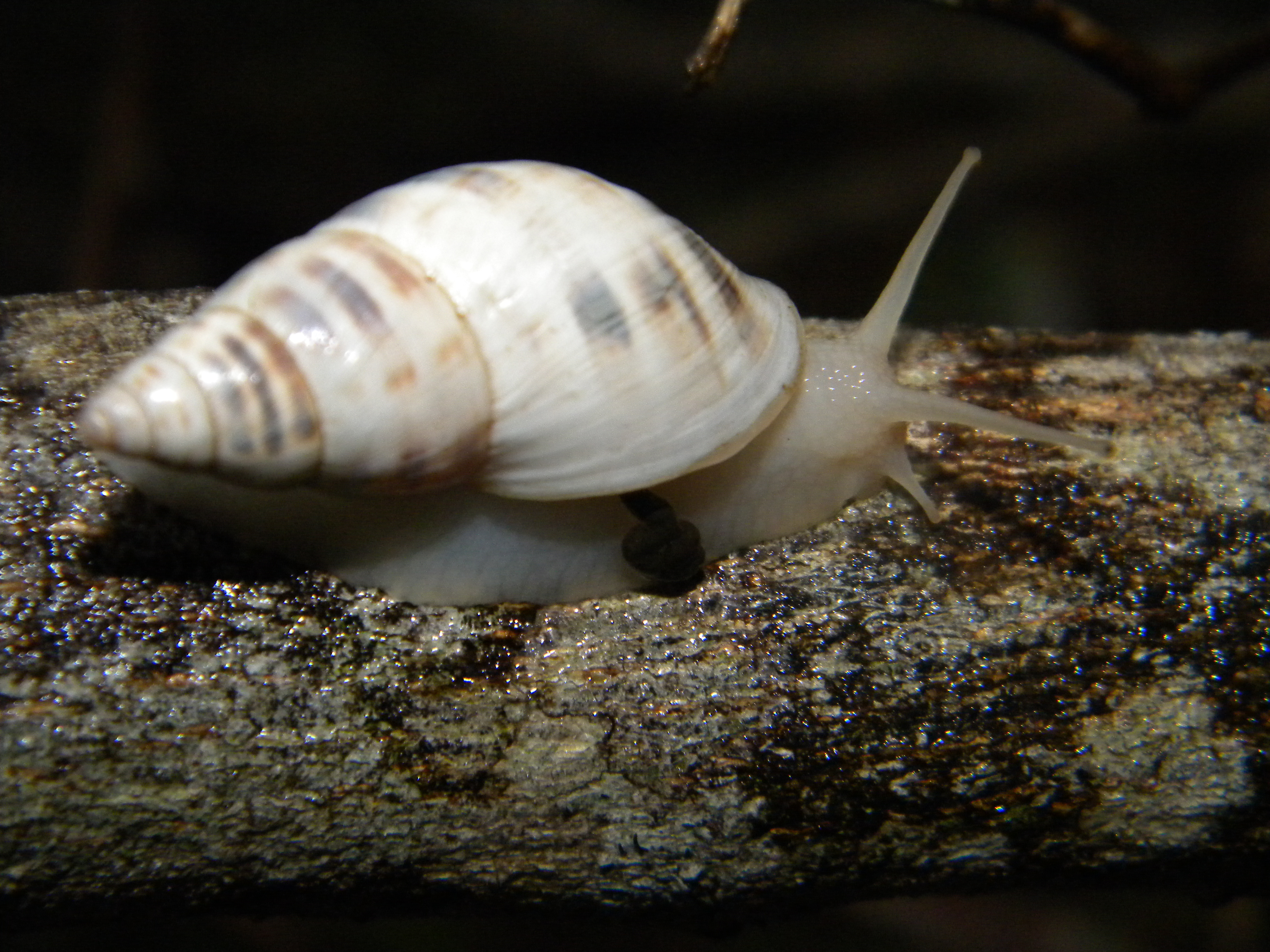 Photo of probably Drymaeus serperastrus from Uxmal, Loltún, Yucatán, Mexico.